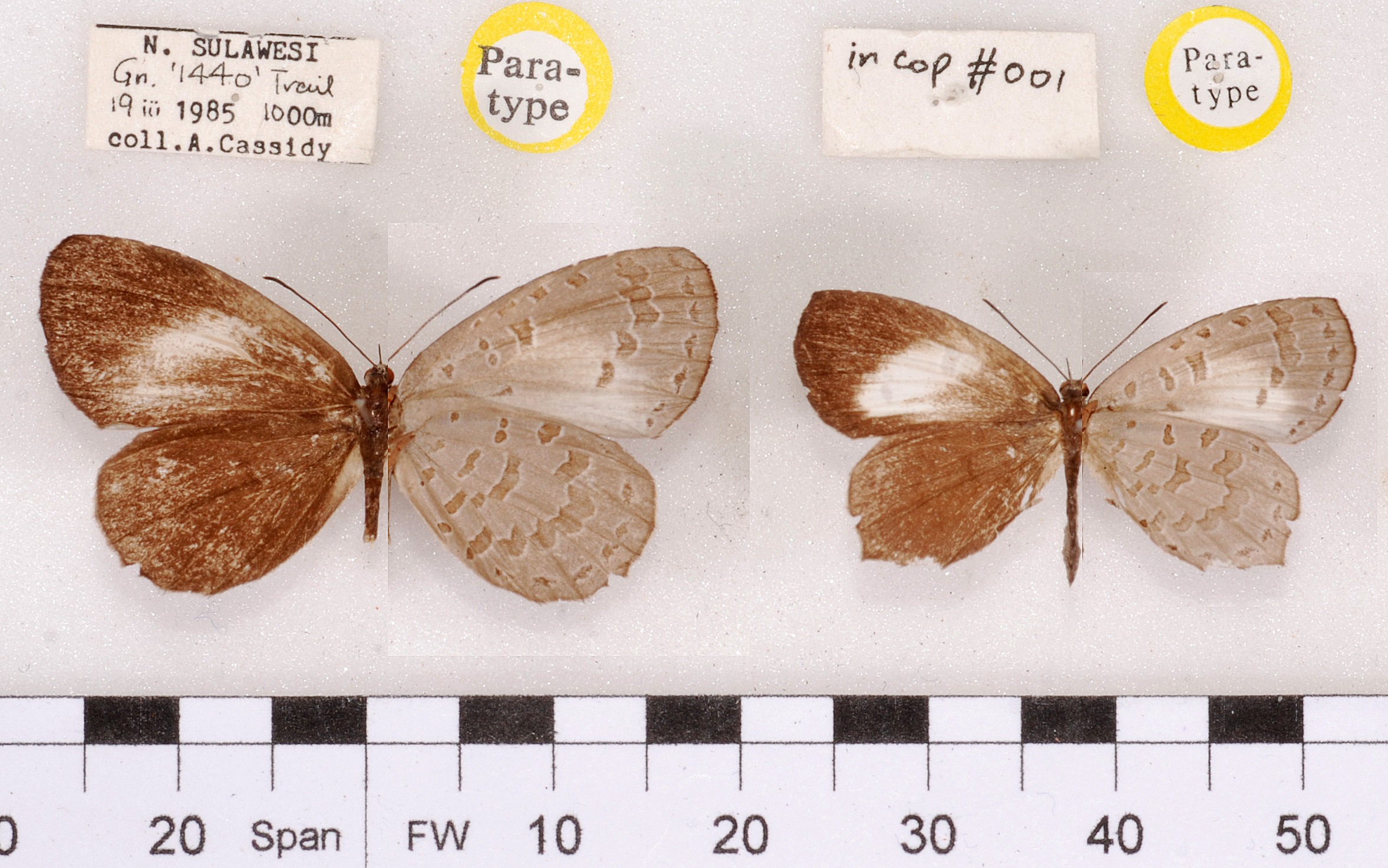 Miletus rosei, male, female, paratypes, set specimens, Sulawesi, Project Wallace material, Alan Cassidy photo.